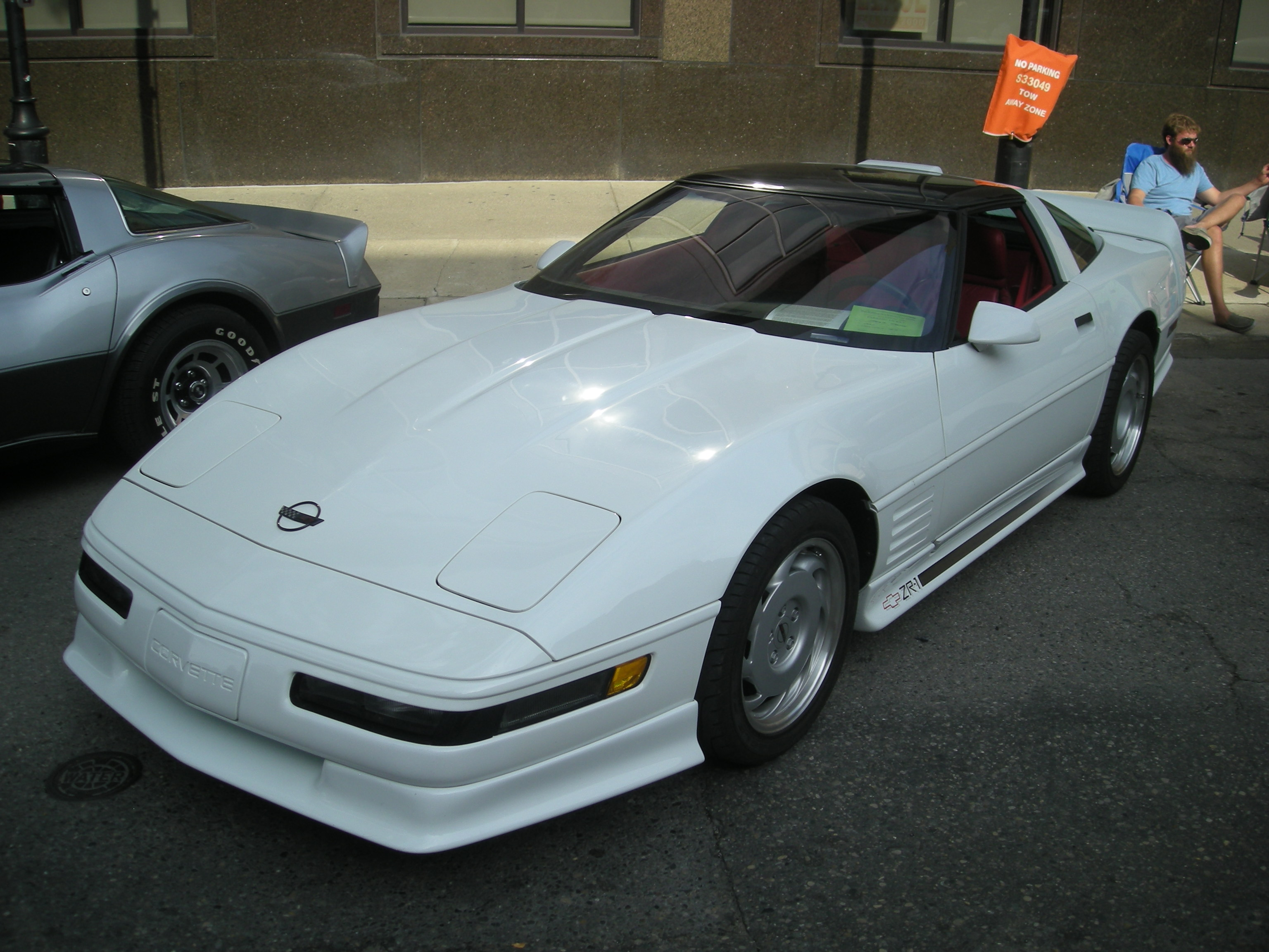 A 1991 Chevrolet Corvette ZR-1 at the 2014 Rolling Sculpture Car Show in Ann Arbor, Michigan (United States).